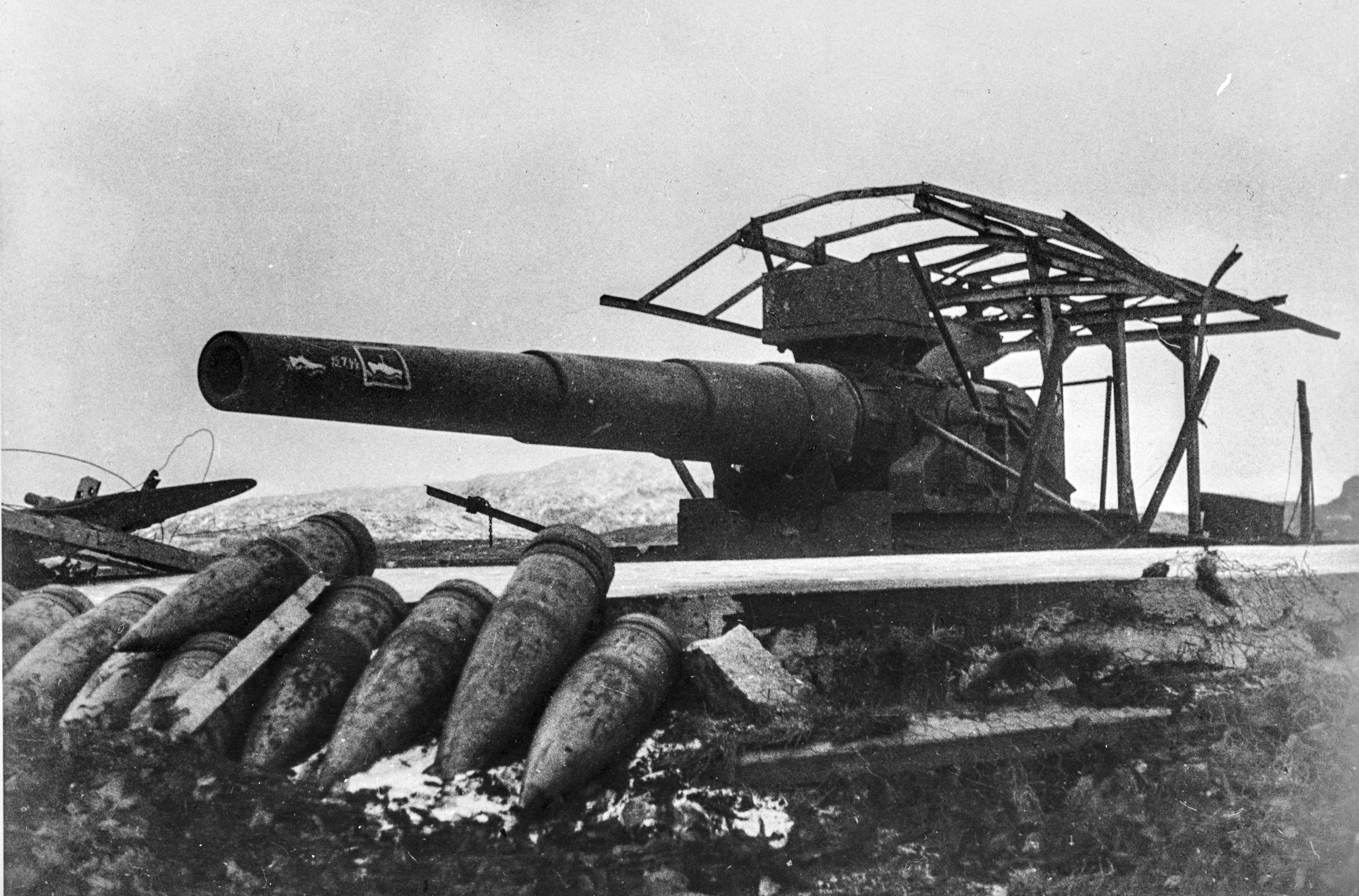 The coastal fortress MAB 4./517 Mestersand in South Varanger Original bildetekst: North Norway: A Nazi coastal anti-landing battery seized by Soviet forces outside Kirkenes. Foto: Fotokhronika TASS Arkivreferanse: NTBs krigsarkiv i Riksarkivet (RA/PA-1209/U/Uj/L0219a)